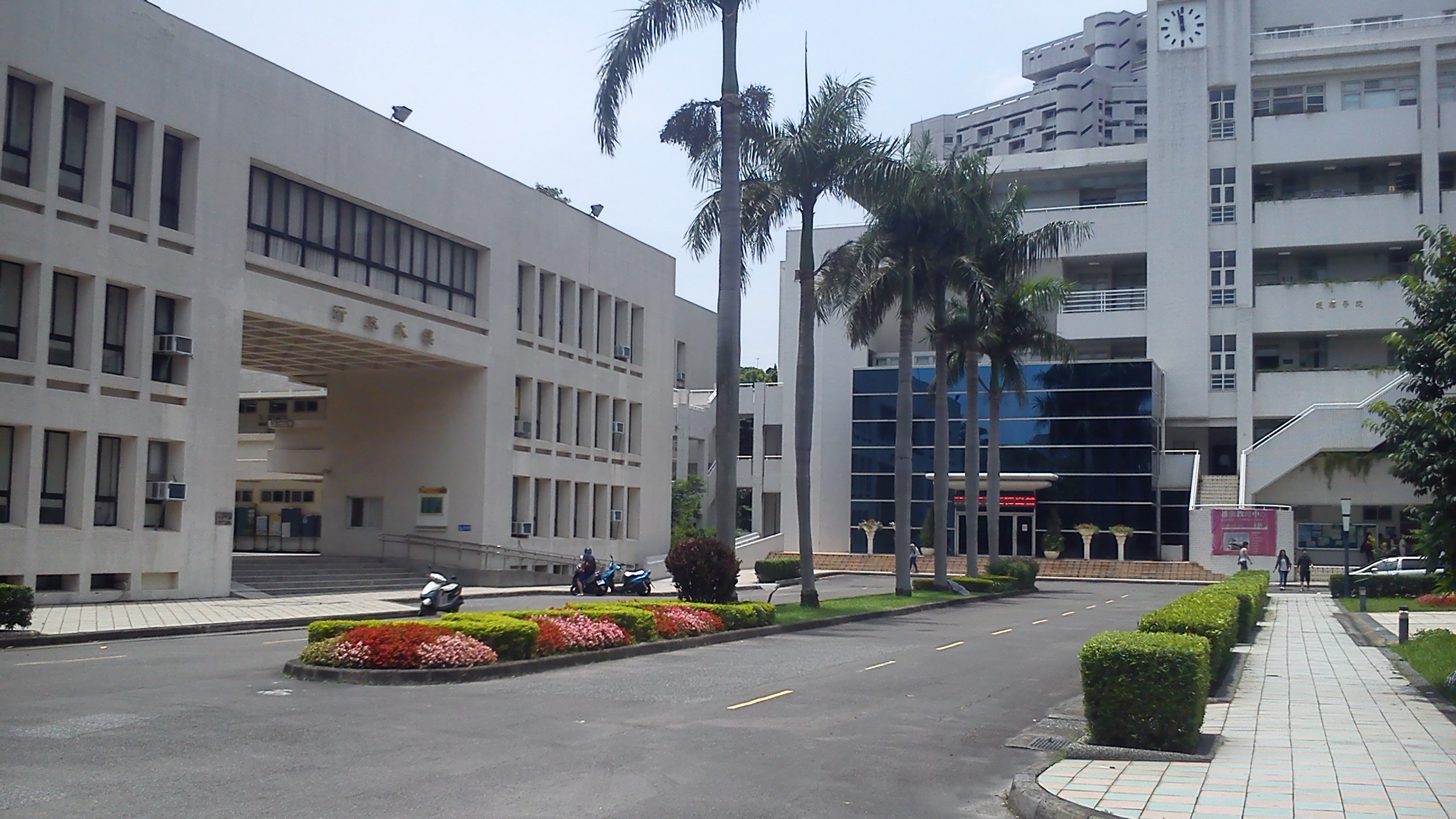 National Taipei University of Nursing and Health Sciences Campus(Nearby Front Gate)